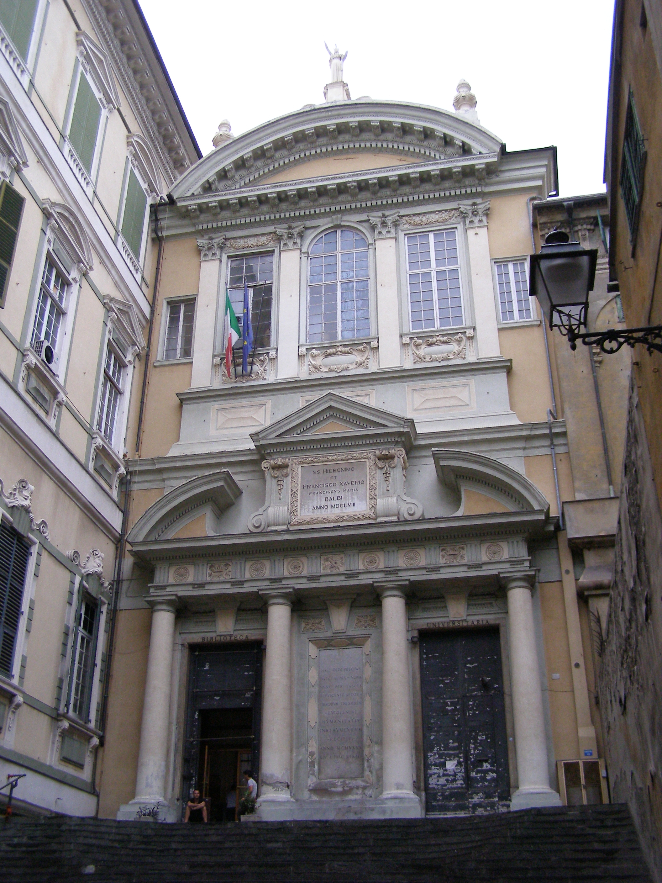 Genoa - the university library